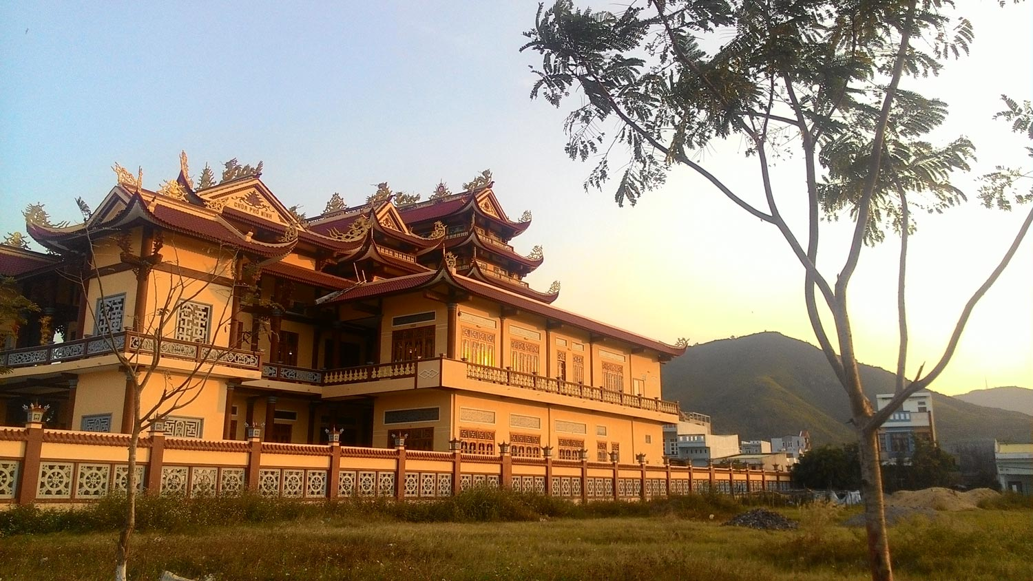 Chua-Pho-Minh-Quy-Nhon